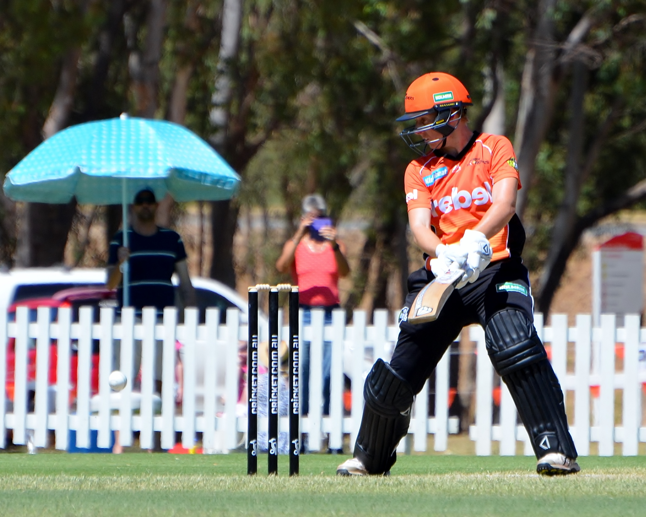 Elyse Villani on her way to 18 for Perth Scorchers (WBBL) against Melbourne Stars (WBBL) at Lilac Hill Park, Perth, Australia.